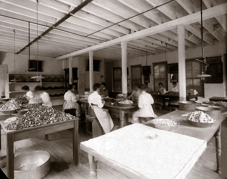 Women working in packing room at Brandreth Pill Factory, Ossining, NY, USA